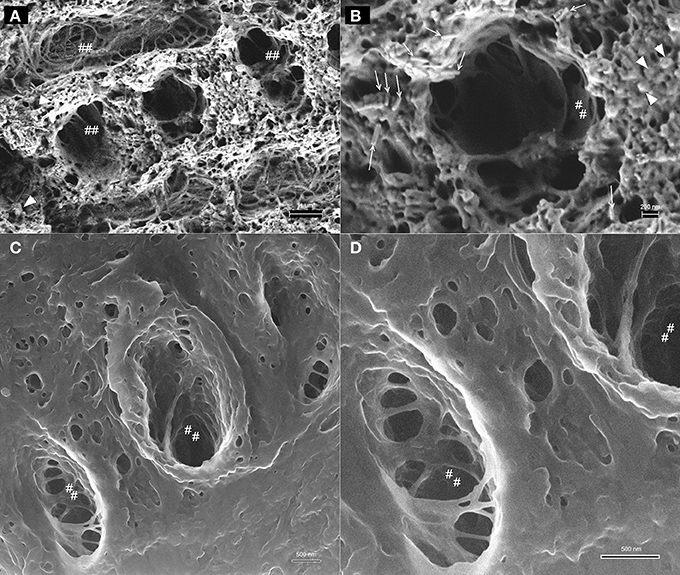 Comparison between imaging in FE-SEM and HIM imaging of organic matrix in secretory stage mouse enamel. The mineral phase of forming prisms has been removed by etching thus exposing the organic matrix. (A,B) FE-SEM images show the variable structure of the organic matrix, the spaces accommodating the forming prisms appear as a black hole, however, due to limited depth of field. Organic matrix forming the wall, as it were, of the prism spaces is smooth and similar to lace as indicated (marked as ##). Spherical structures of up to ~100 nm diameter are abundant between forming prisms (arrow heads) and rod like features of several hundred nanometer length and less than 100 nm diameter can be discerned (open arrows). (C,D): HIM images reveal with great depth of field the network-like organization of organics delimiting the prism space. The matrix between prisms appears smooth and no structural details can be clearly discerned.